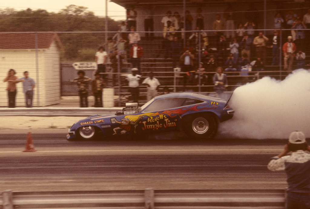 The flambouyant Jungle Jim Liberman does a long smoky burnout at Green Valley Raceway, Texas on 4 April 1976. He would die a little over a year later at age 32 in a head-on collision with a bus.